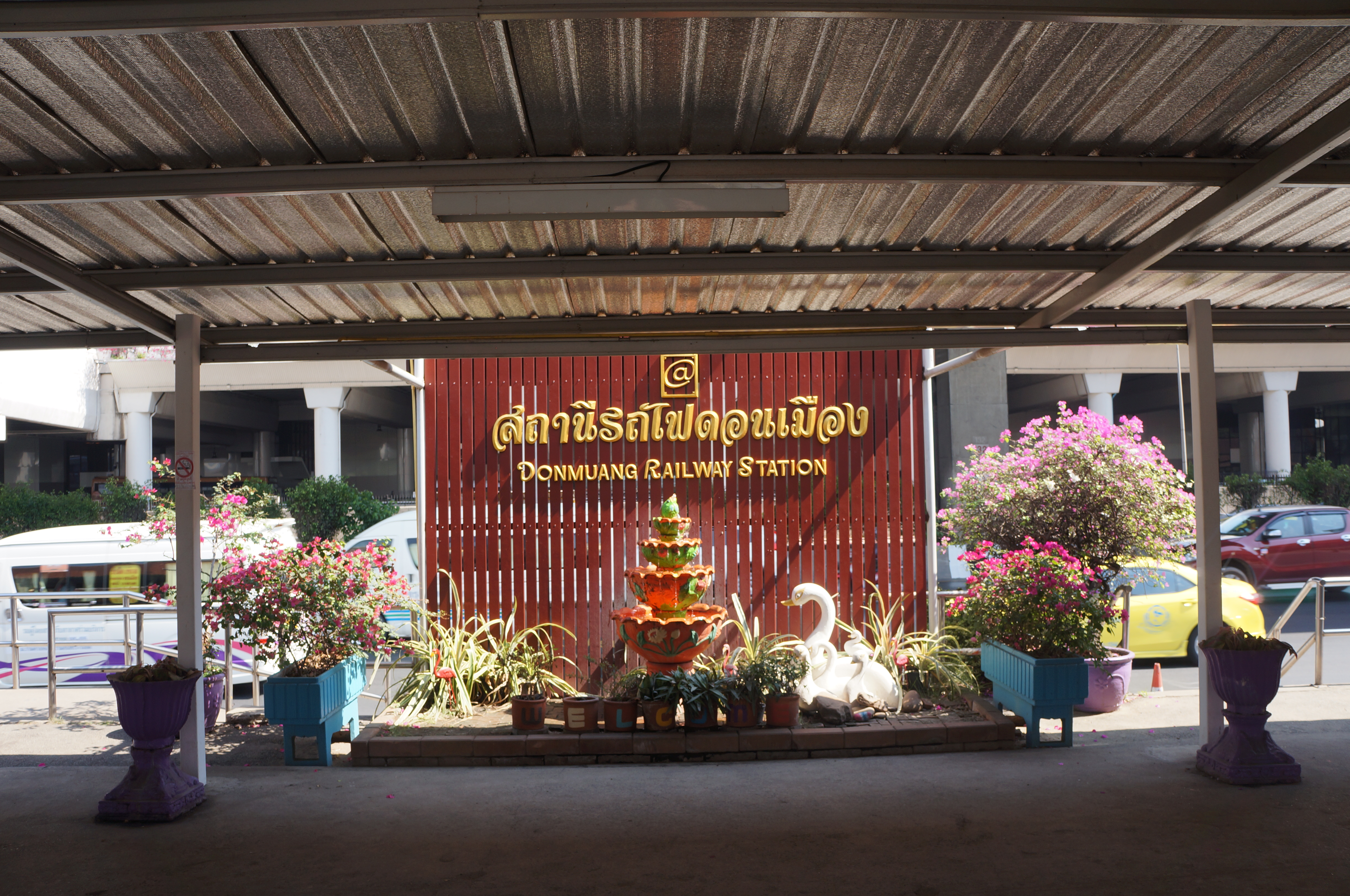 201701 Infoboard of Don Muang Station. Platform 1 faces the Terminals of DMK